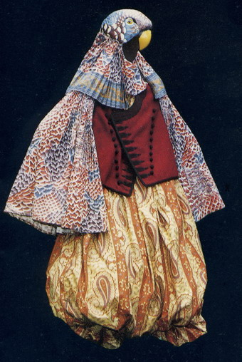 Costume by Jacques Schmidt for "The Birds" by Aristophan (1985)